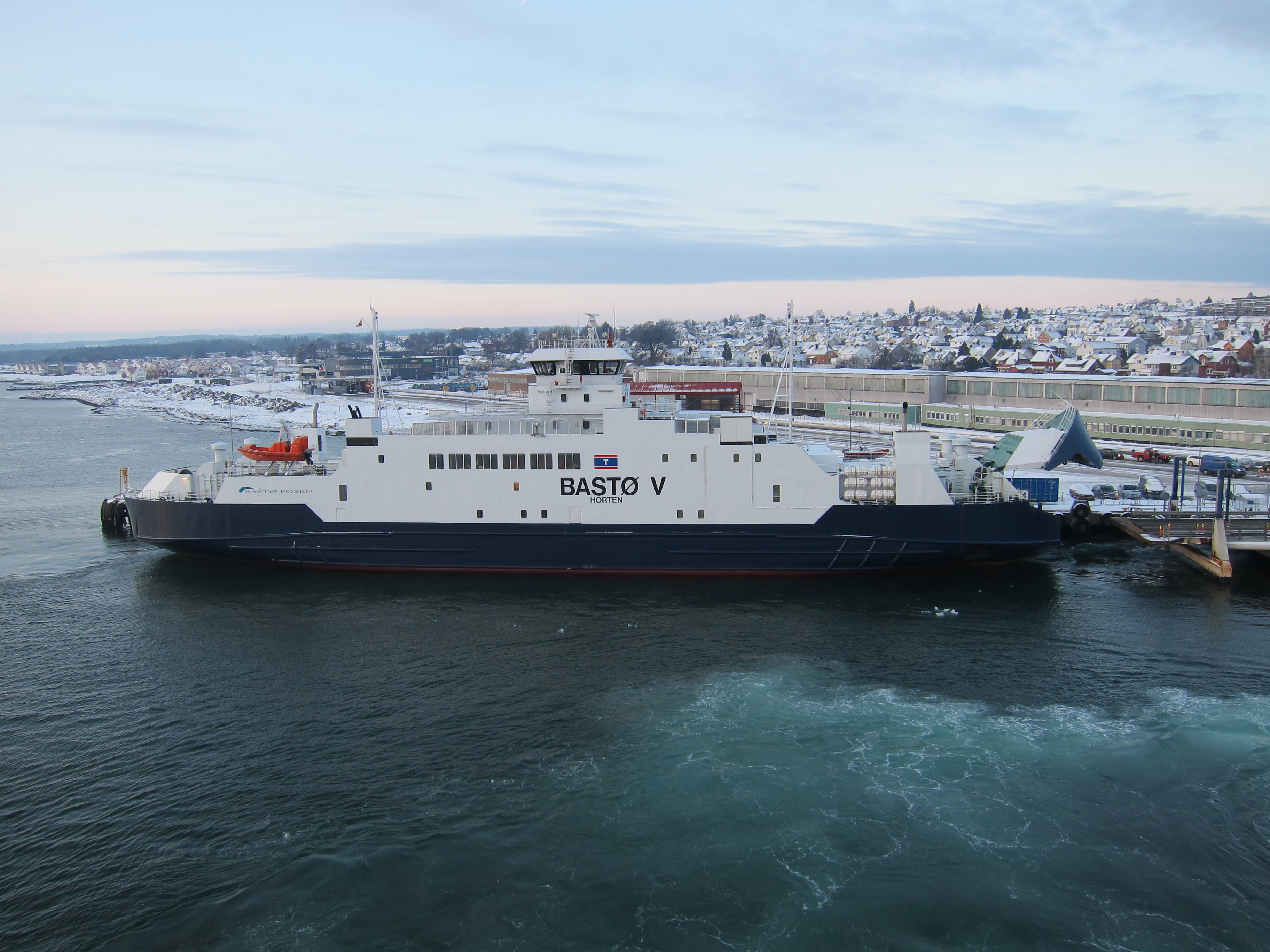 The ferry Bastø V in Horten, just leaving for crossing over to Moss